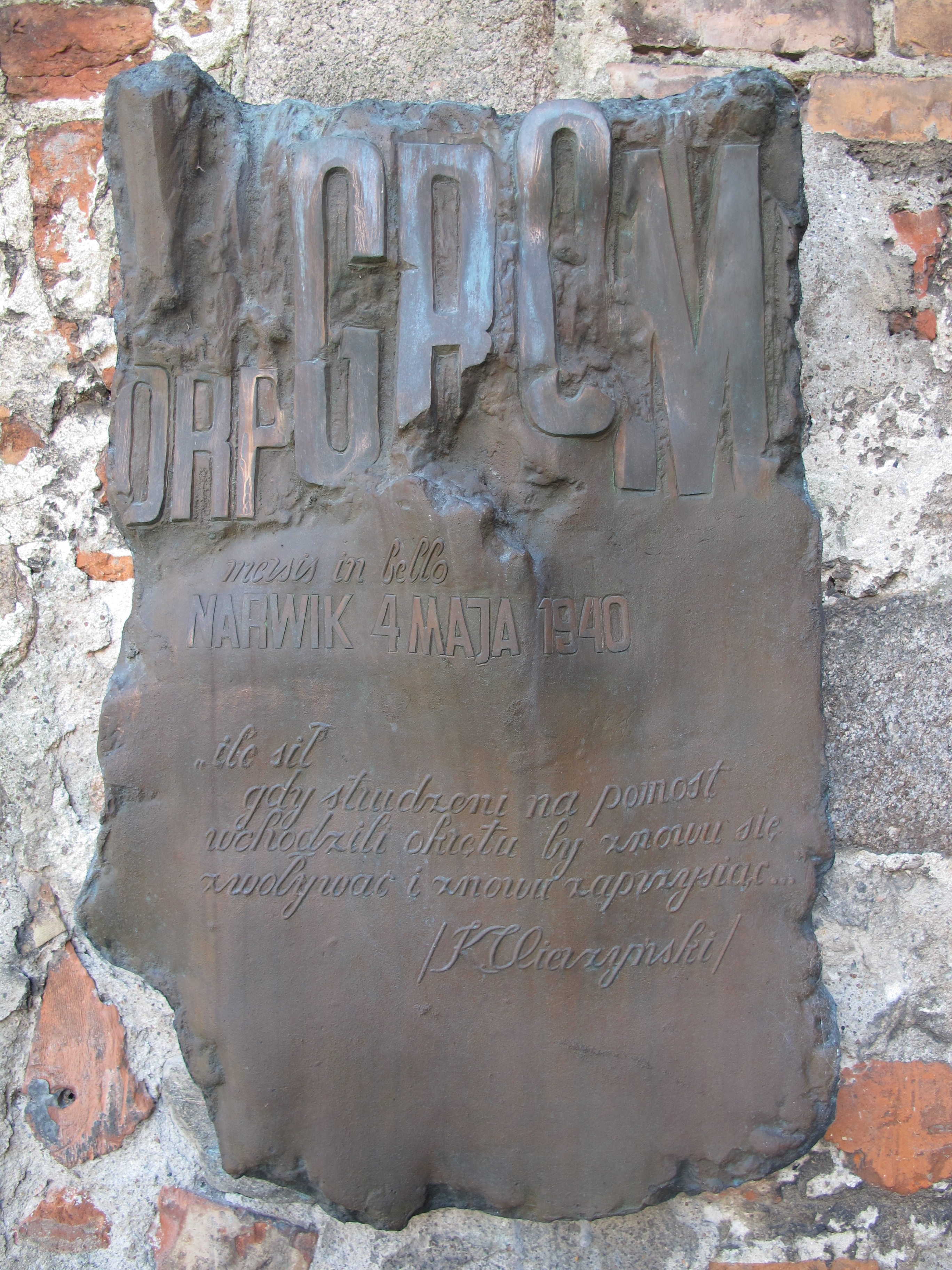 Gdynia - Michael Archangel church - ORP Grom memorial plaque